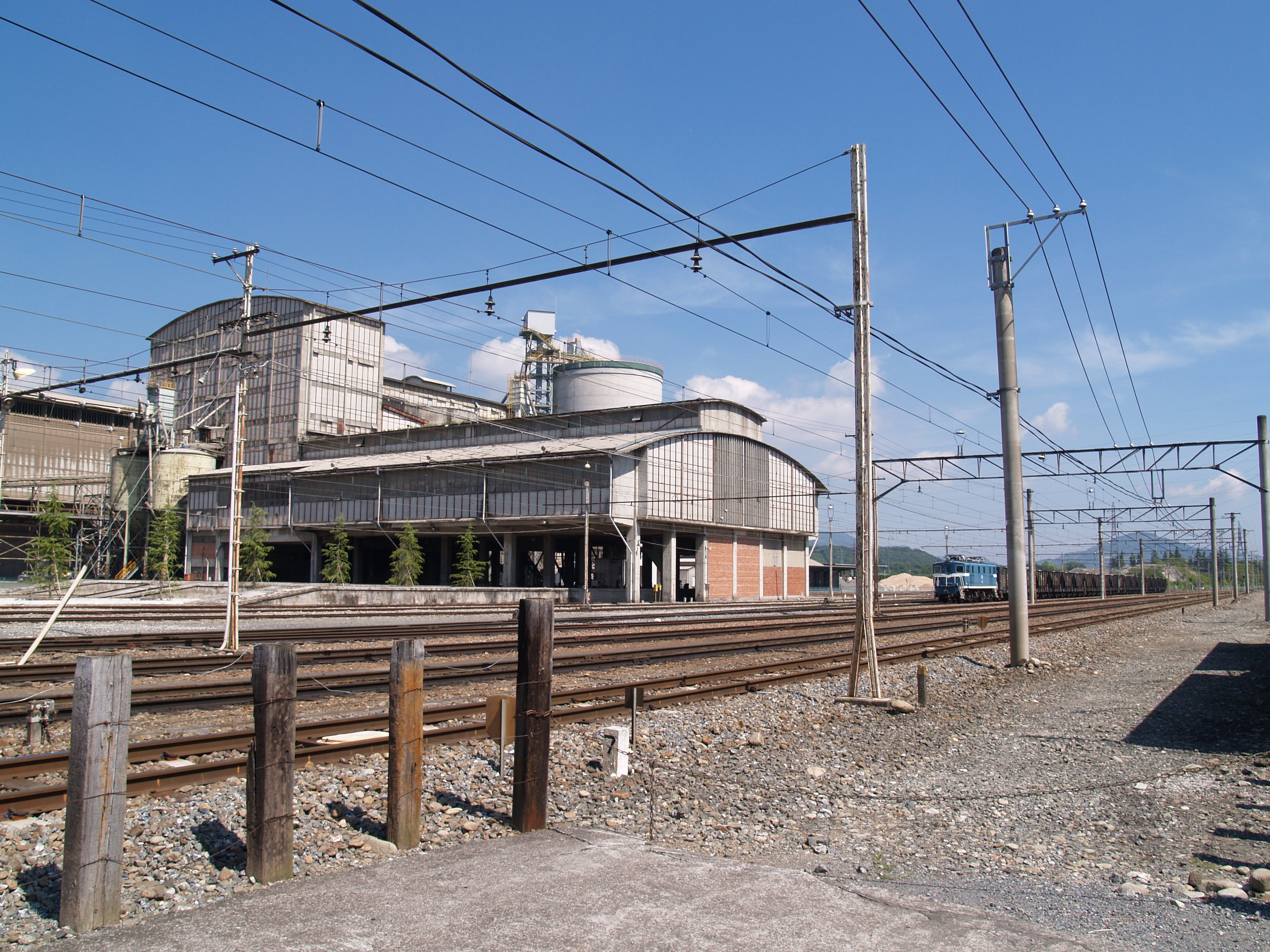 Bushu-Haraya Freight Terminal on the Chichibu Main Line